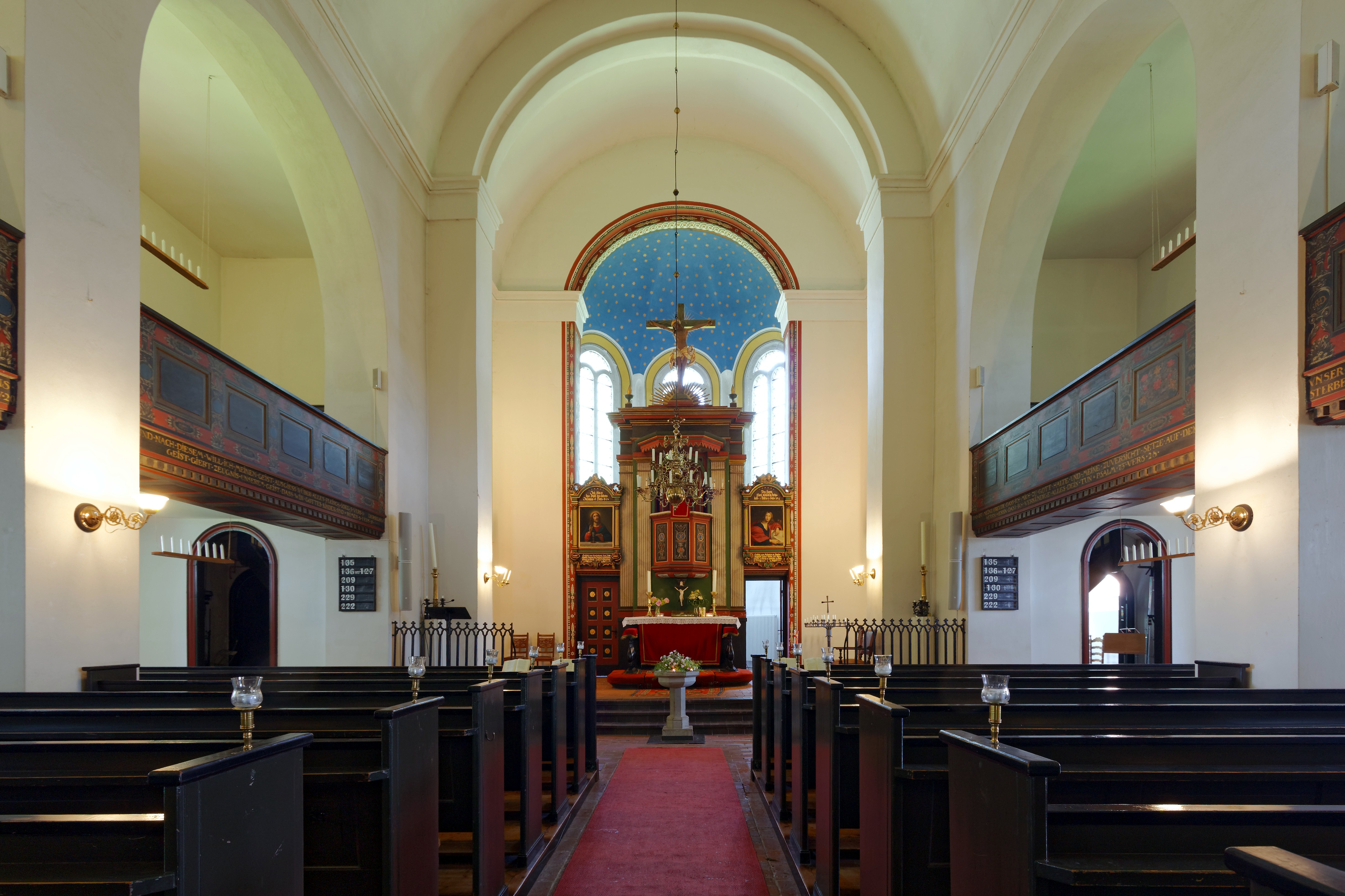 interior of the church in Nusse